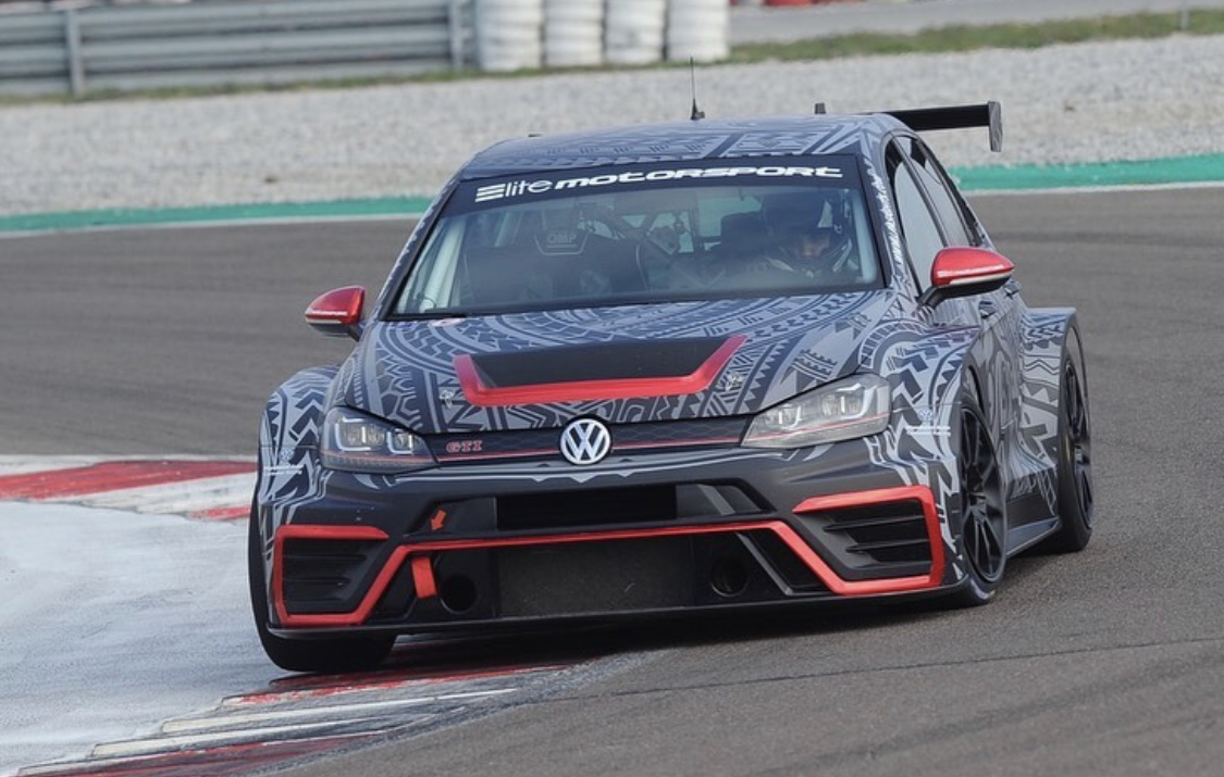 Alessandro Giardelli during a pre-season 2020 test with the elite motorsport team and the Volkswagen Golf TCR.